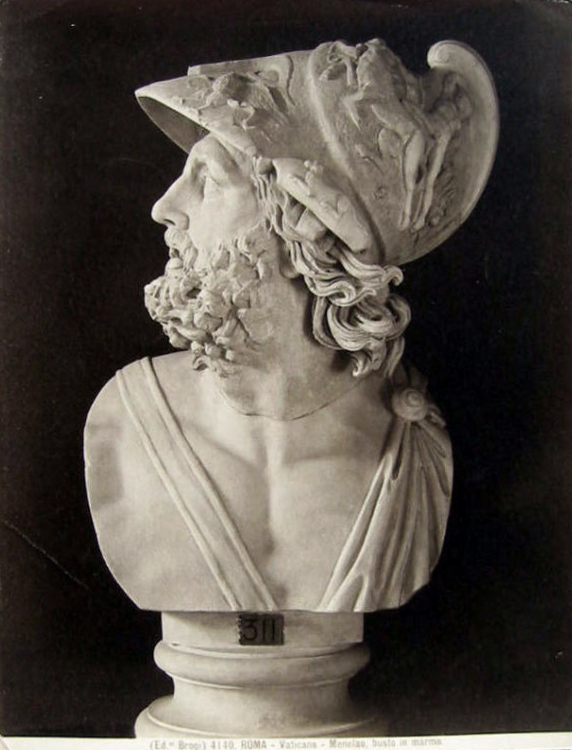 Giacomo Brogi (1822-1881) - "Rome (Vatican Museums) - Menelaus, marble bust". Catalogue # 4140.